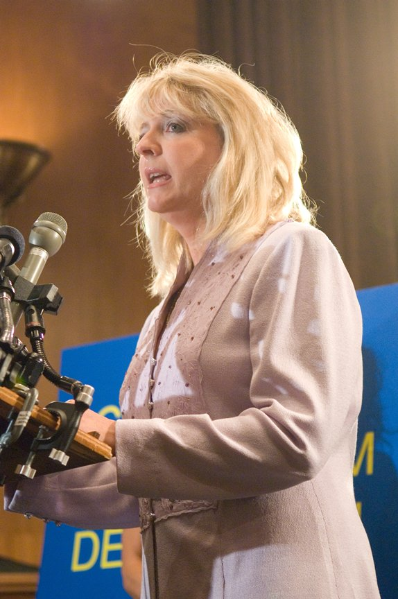 Mary Jo Codey, wife of Richard Codey, in 2007